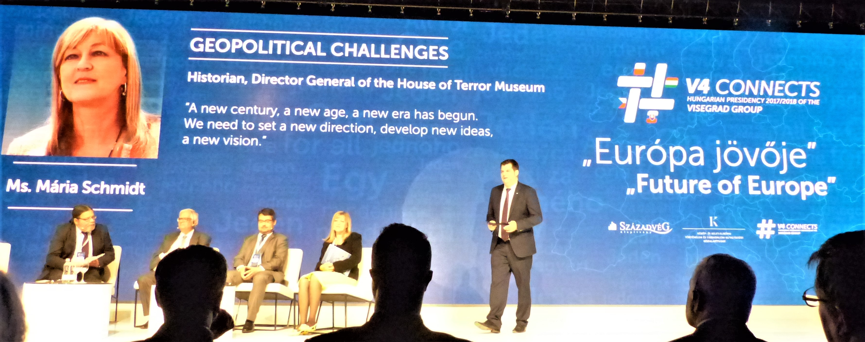 The Future of Europe international conference. The 24th of May, 2018. Polgári Magyarországért Alapítvány, XXI. Század Intézet, V4 Connects. Várkert Bazár, Budapest, Hungary, Central Europe. III. Panelː GEOPOLITICAL CHALLENGESː III. PANEL - Alexandr Vondra, Mário David, Tomáš Strážay, Schmidt Mária.